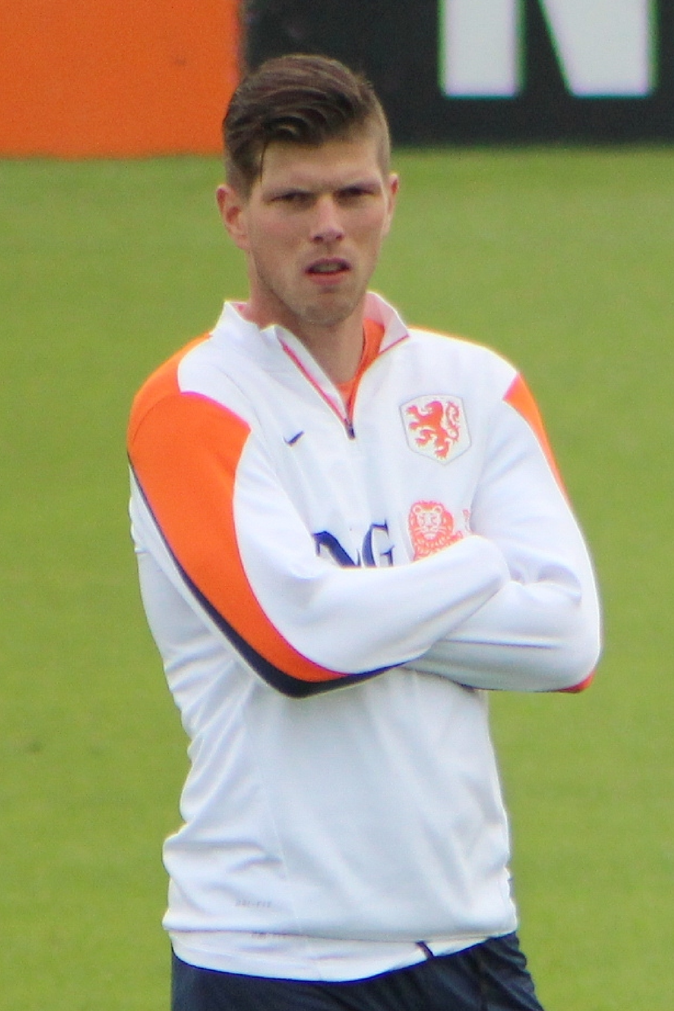 Cropped version.